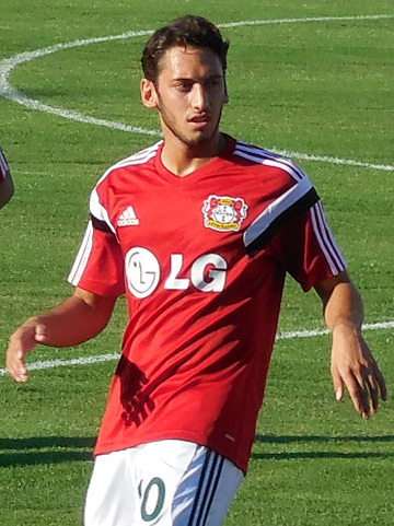 Hakan Çalhanoğlu turkish football player playing for Bayer Leverkusen in a friendly match against Olympique de Marseille